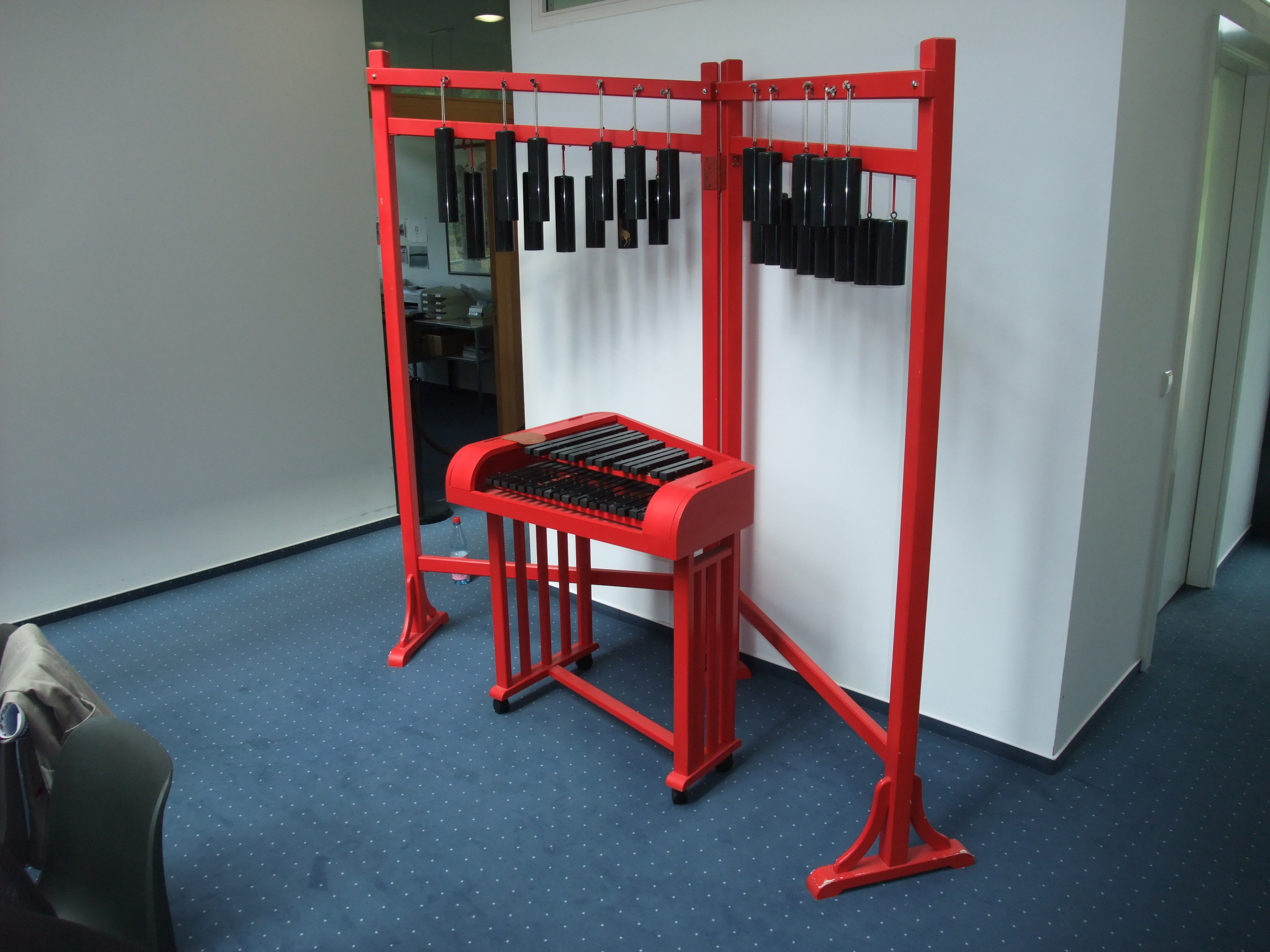 Sanukitophone at the German Japanese Centre in Berlin, Germany